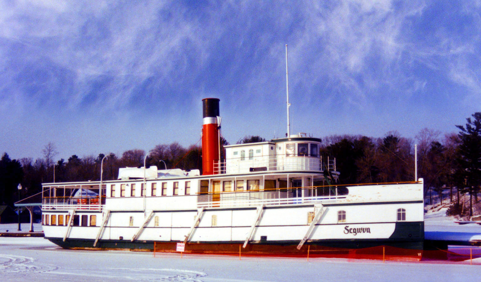 RMS.Segwun,Gravenhurst, Ontario, Canada [photo by P.B.Toman]